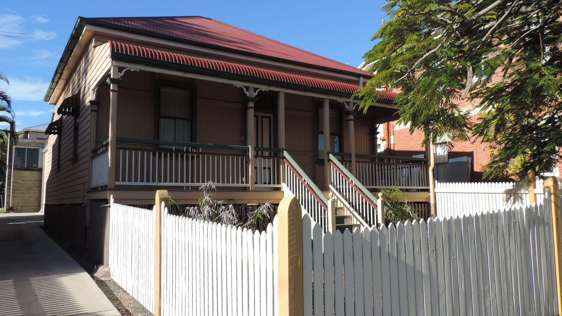 35 Tingal Road, Wynnum - former ambulance station used prior to the erection of a purpose-built ambulance station next door at 33 Tingal Road